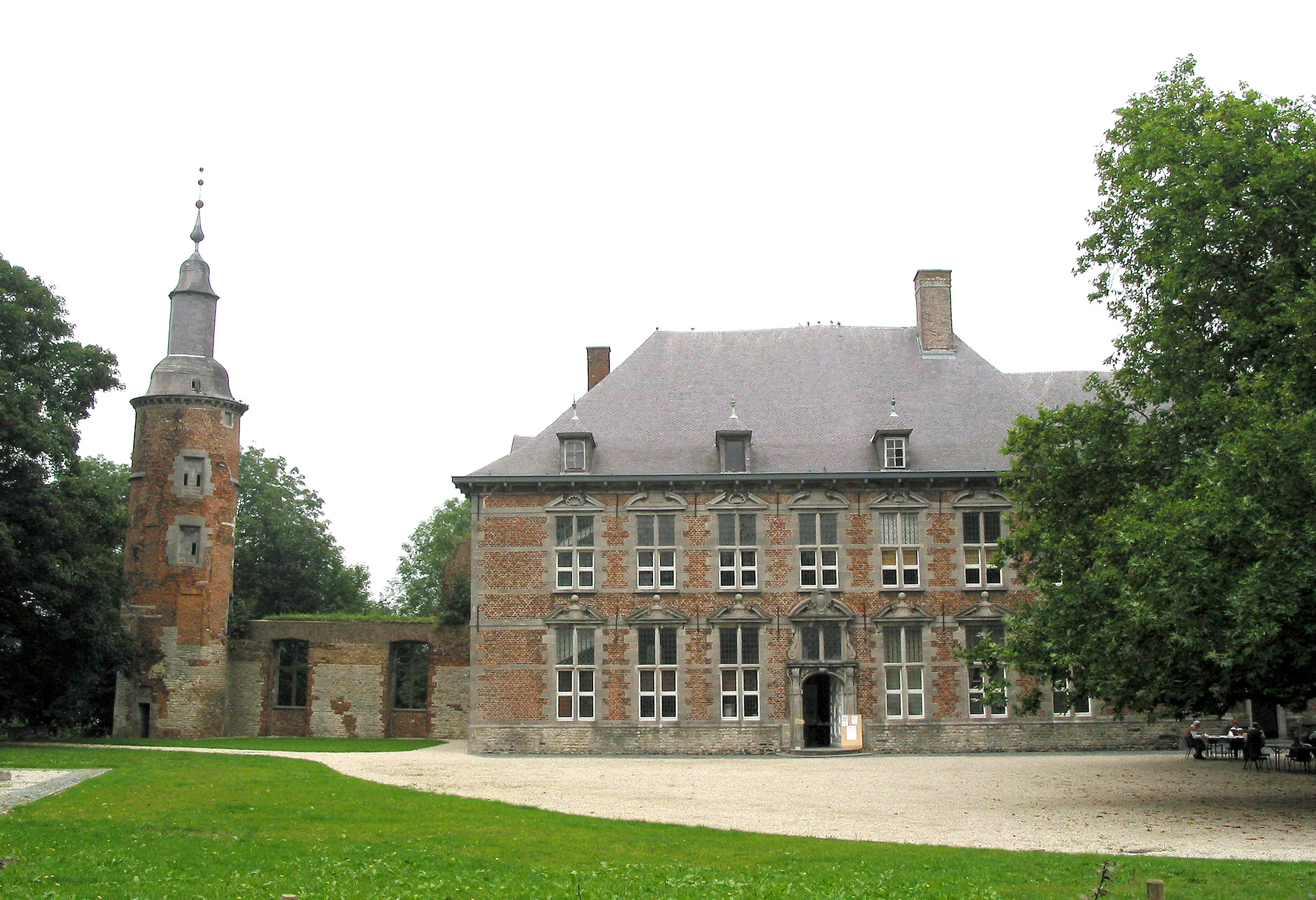 Trazegnies (Belgium), the castle (XI-XVIth century).